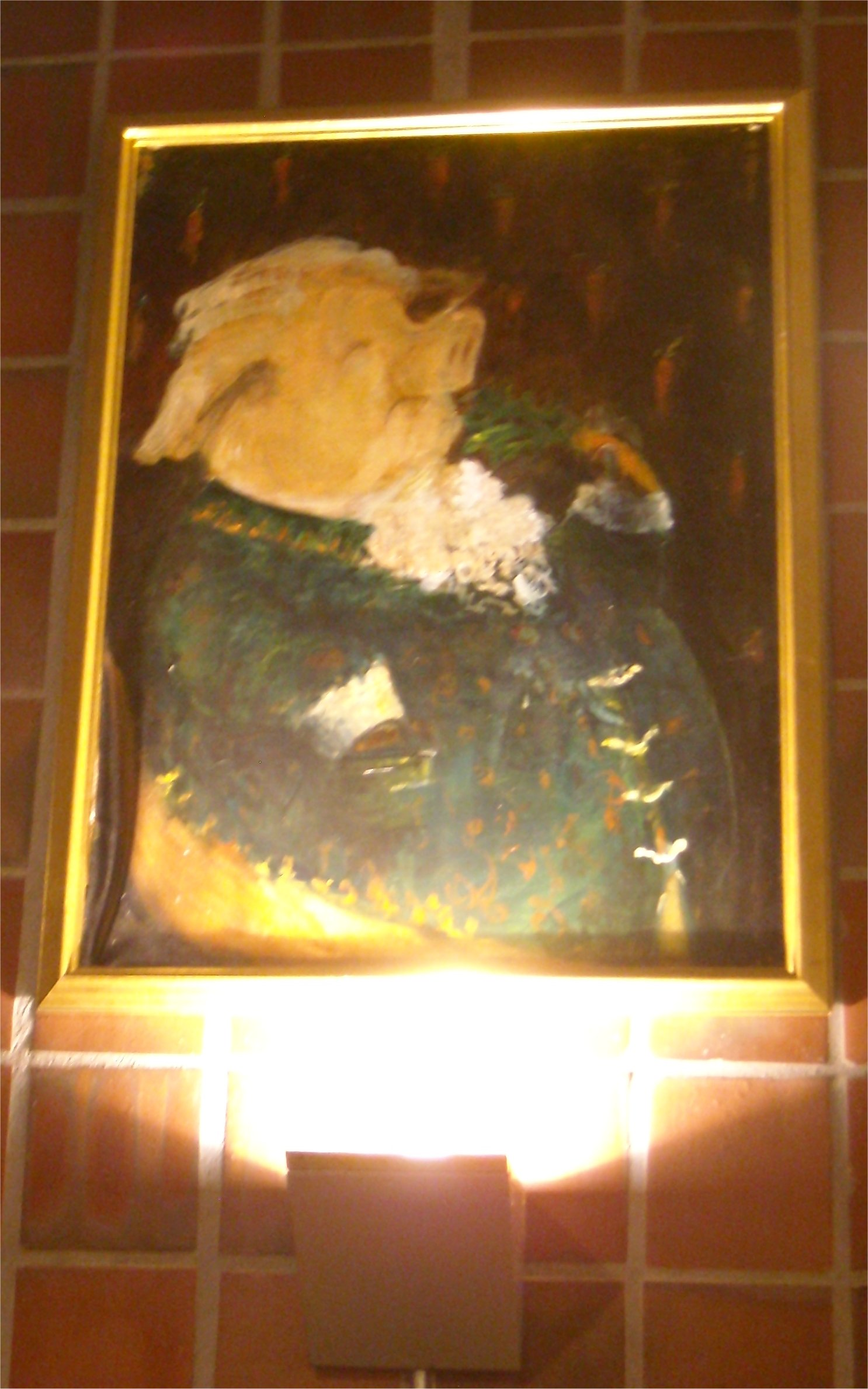 Picture in the library of the Chateau Neuf (Det Norske Studentersamfund)